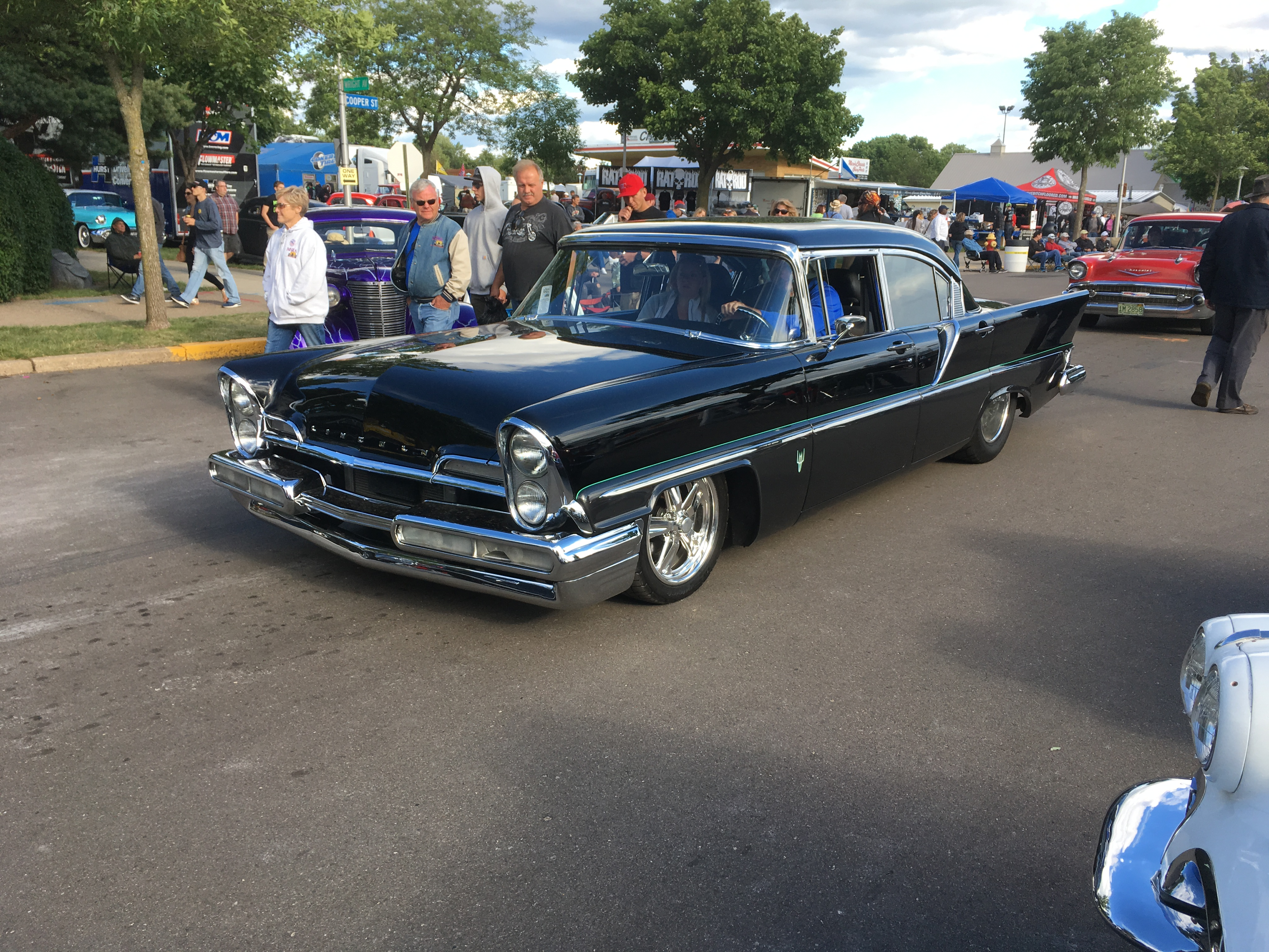 I had two rechargeable camera batteries with me for the MSRA excursion, Friday & Saturday I used up both of them and one of them on Sunday. I resorted to using my phone camera to capture images on my trips back to the parking lot to switch out the battery. I only had one charger, so I had to wake up at 1 a.m. to switch out the battery in the charger, to get both ready for the next day. Minnesota Street Rod Association (MSRA) “BACK TO THE 50′s” 44th Annual Car Show June 23-25, 2017 Minnesota State Fairgrounds St. Paul Minnesota Click here for previous "Back to the 50's" pictures.. Click here for more car pictures at my Flickr site. Or here for my Car Crazy Tumblr site. Or on Twitter @DVS1mn.